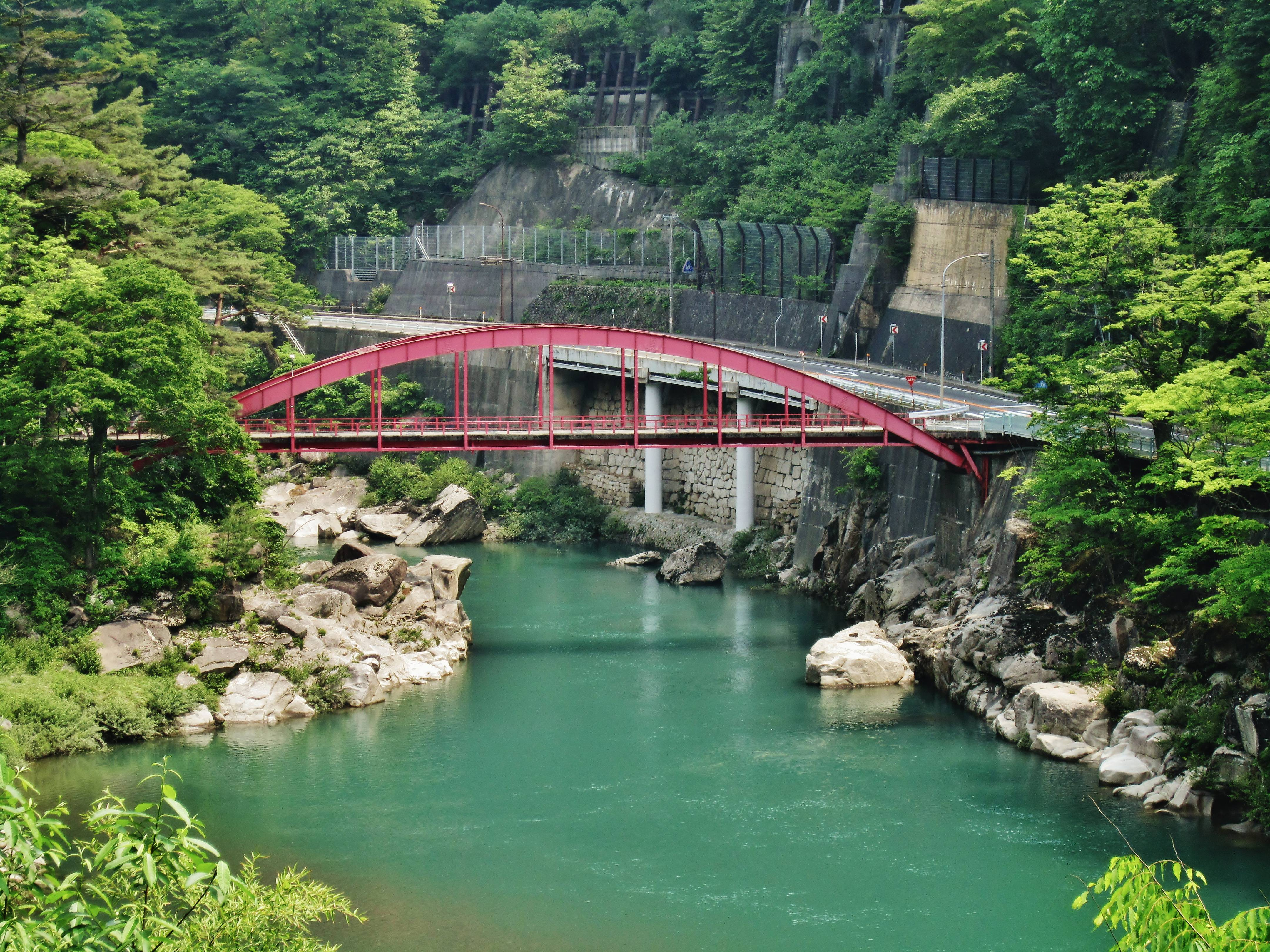 Kiso River and Kakehashi.